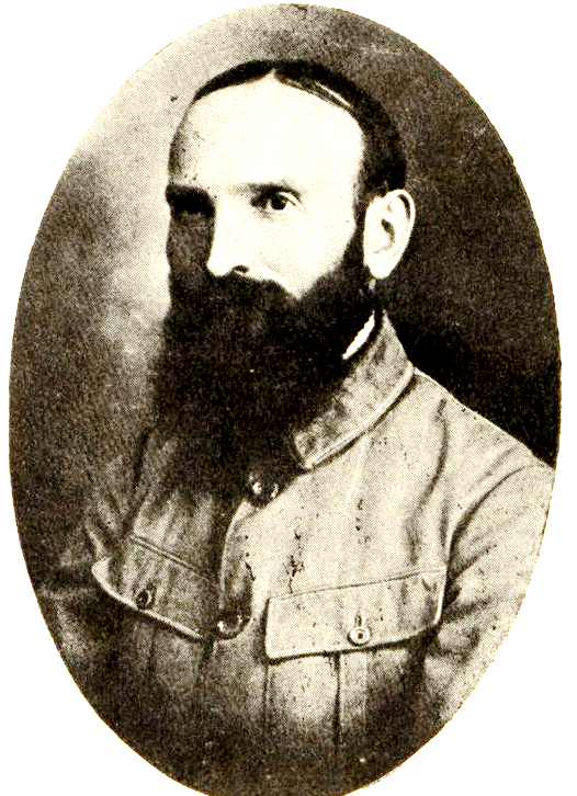 The Occitan writer Albèrt Pestort (beginning 20th century)